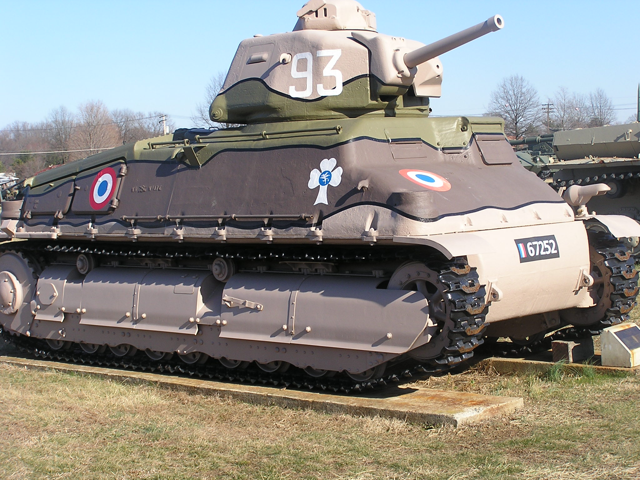 Taken at Aberdean Proving Ground